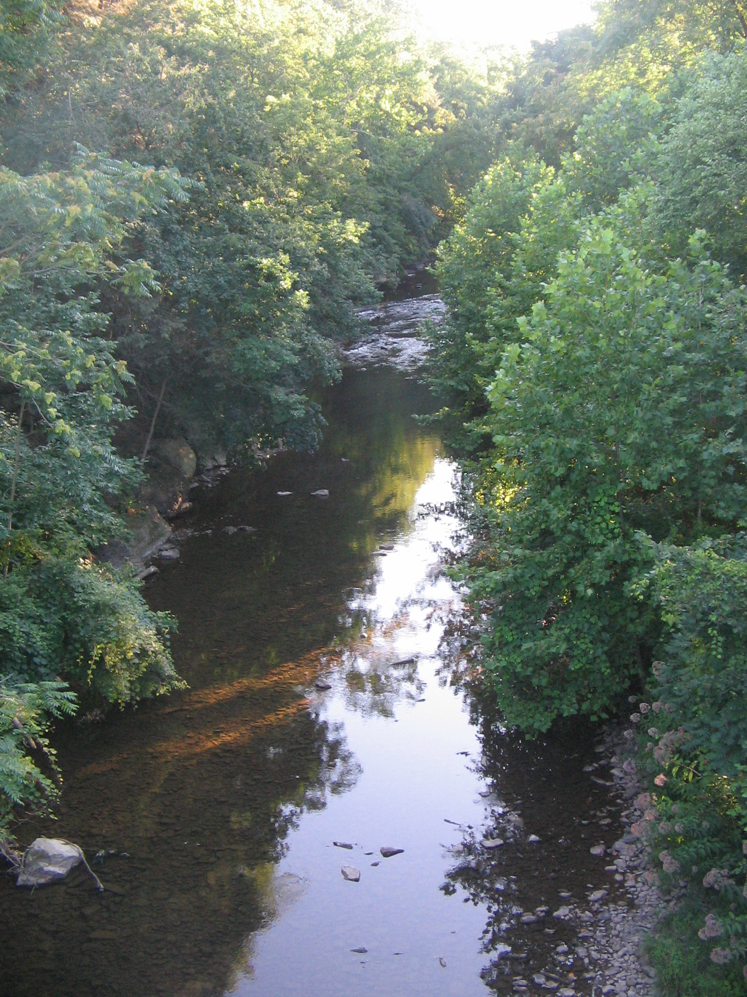 White Deer Creek from thr US Route 15 Bridge in White Deer Township, Union County, Pennsylvania, USA.